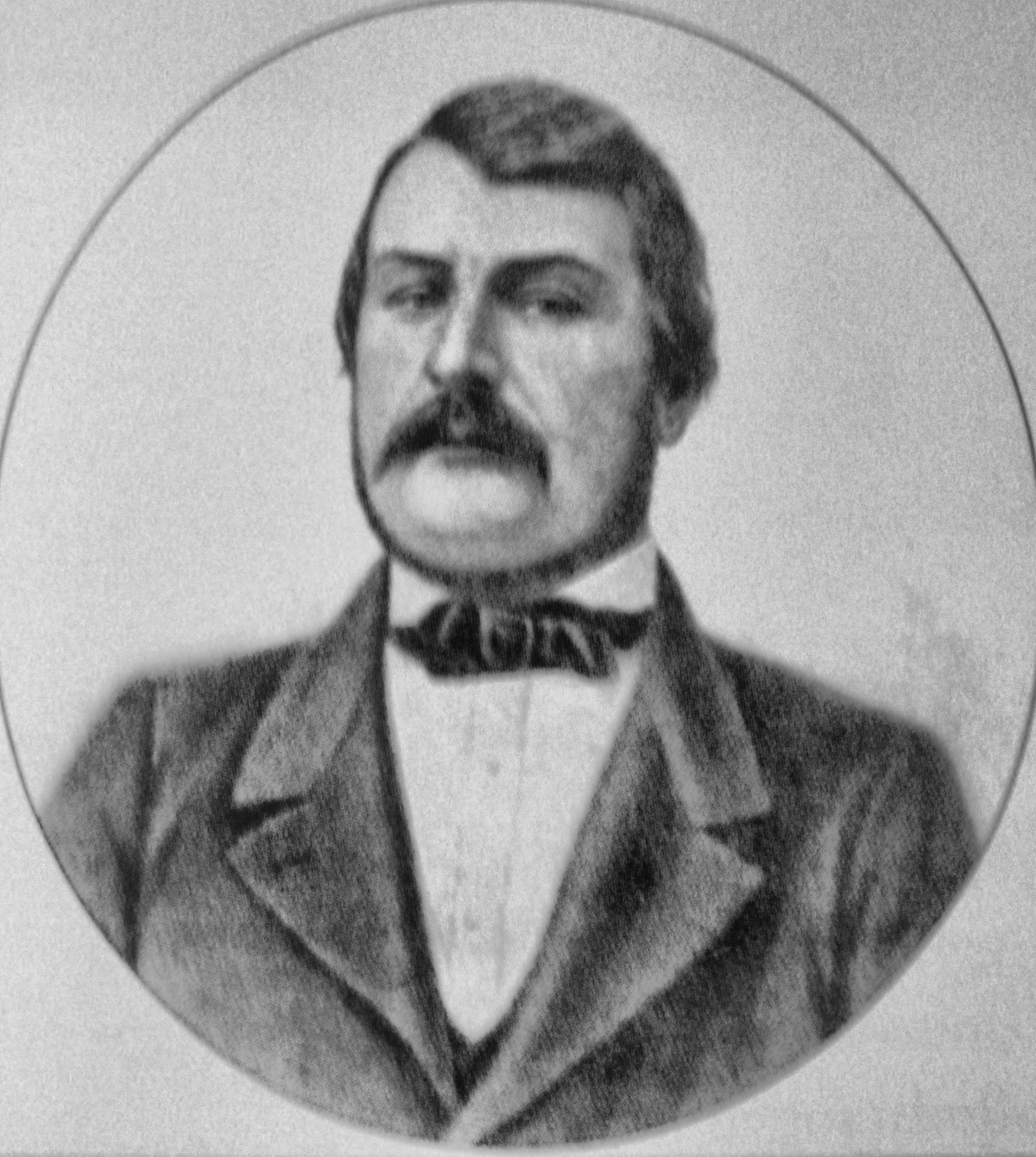 Prince Giorgi Eristavi (1813-1864), Georgian playwright, poet, journalist, and the founder of modern Georgian theatre.